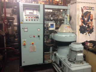 This picture shows an oily water separator that separates water and oily by using a centrifugal purification process.